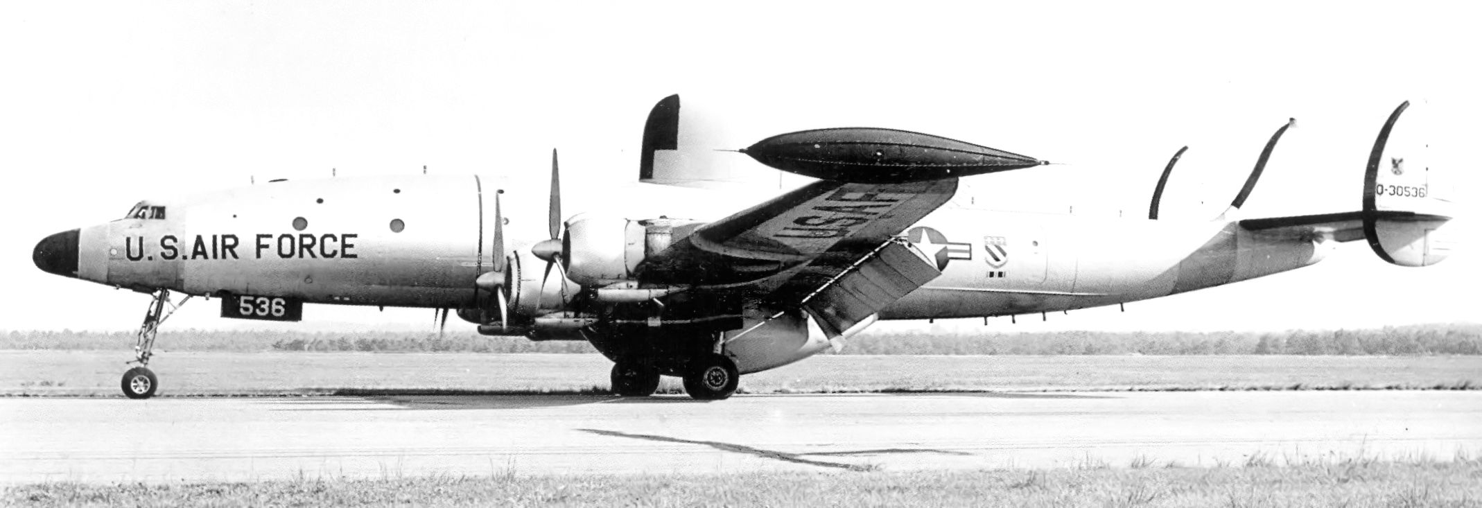 551st AEWC Wing Lockheed RC-121 53-536 Otis AFB Massachusetts, 1963